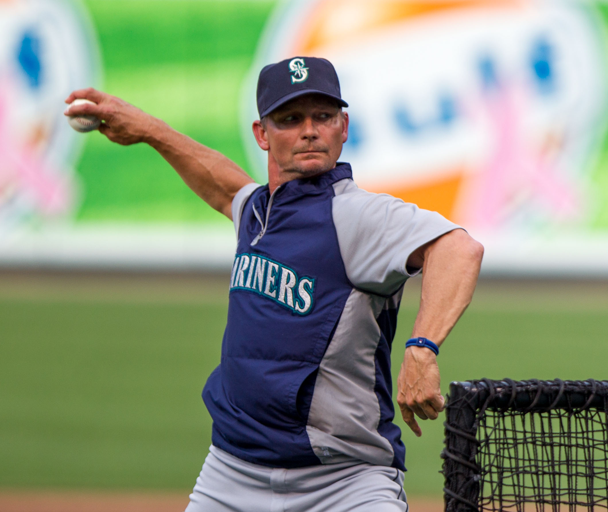 Seattle Mariners coach Mike Brumley - Mariners at Orioles August 6, 2012